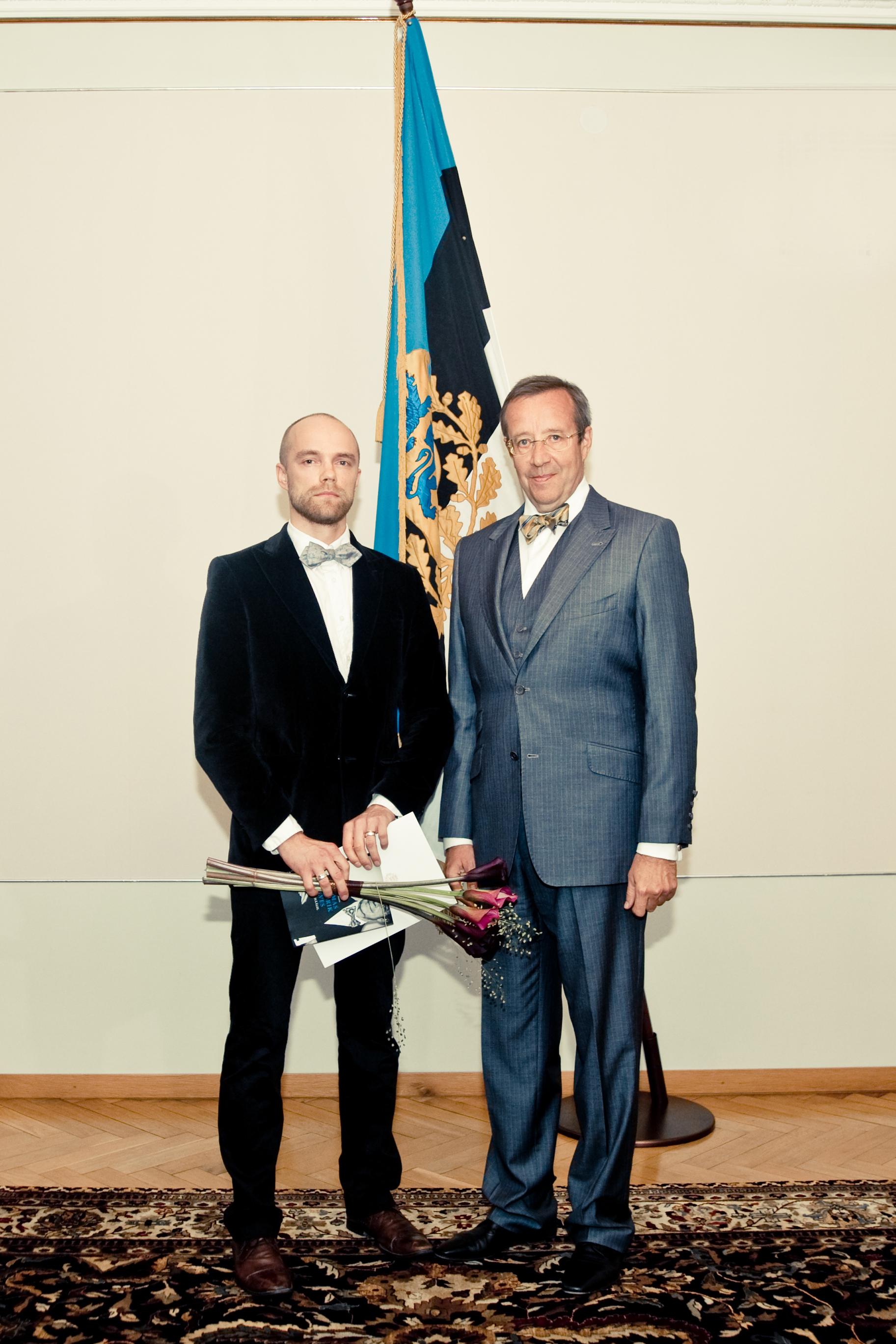 President Ilves presented Tanel Veenre with Young Cultural Figure Award.